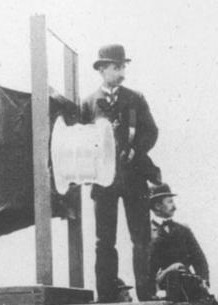 A very large camera designed by George R. Lawrence (1868-1938) and used to photograph a train of the Chicago & Alton railroad on the Chicago-St. Louis line for the 1900 Paris Exhibition. - After the French Consul General had inspected the camera and enormous glass plate, Lawrence was awarded the Grand Prize of the World for Photographic Excellence at the Paris Exposition of 1900 for his 8 x 4 1/2 foot photograph of the Alton Limited train, promoted as The Largest Photograph in the World of the Handsomest Train in the World.[1]